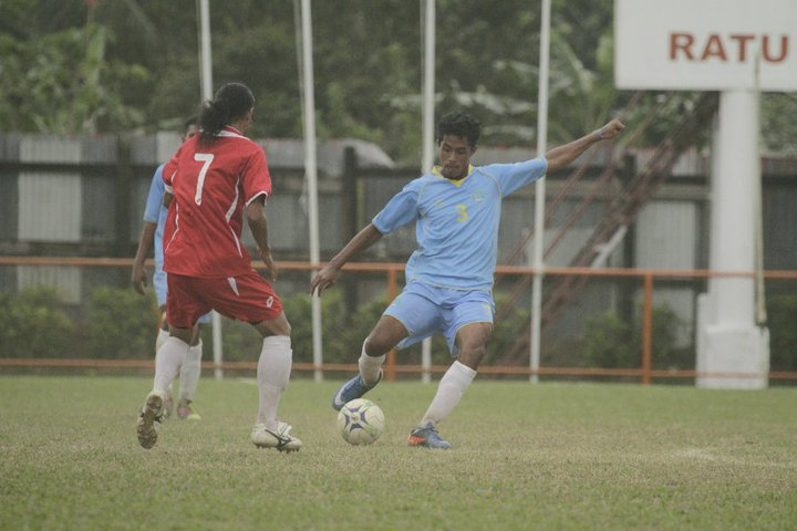 Tofuola_02